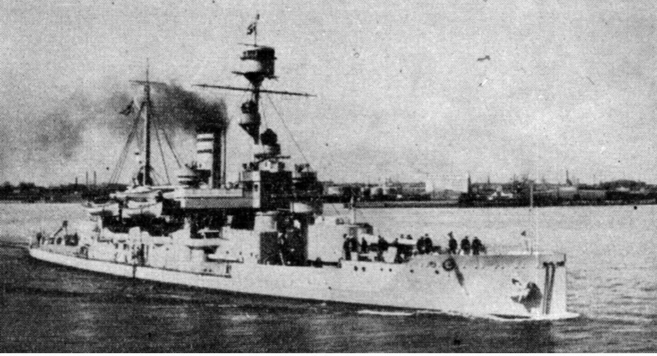 Danish coastal defence ship "Peder Skram"